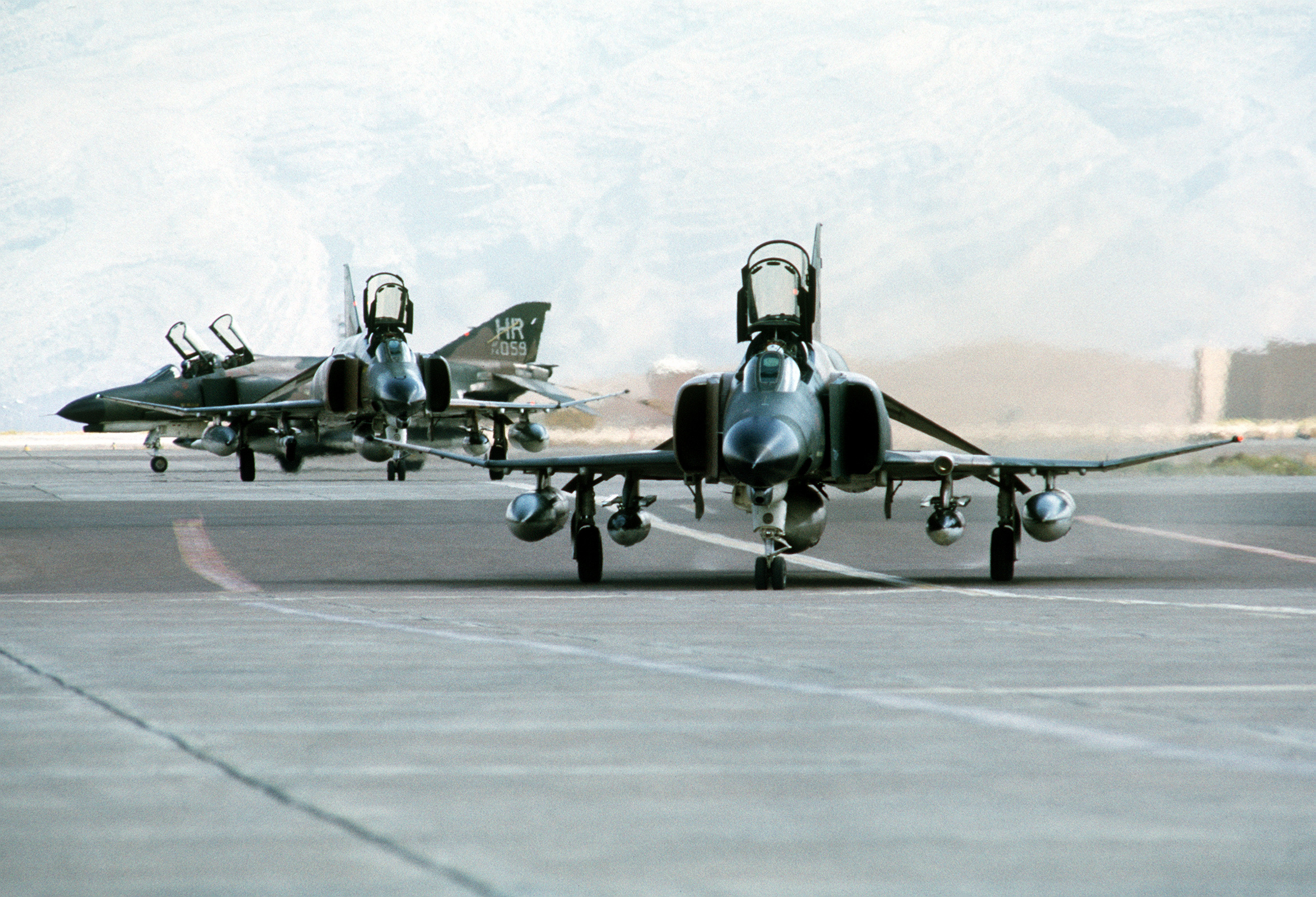 Three U.S. Air Force McDonnell Douglas F-4E Phantom II aircraft parked at Shiraz Air Base (Iran) during exercise Cento, 1 August 1977. The Phantoms were from the 50th Tactical Fighter Wing, based at Hahn Air Base (Germany).